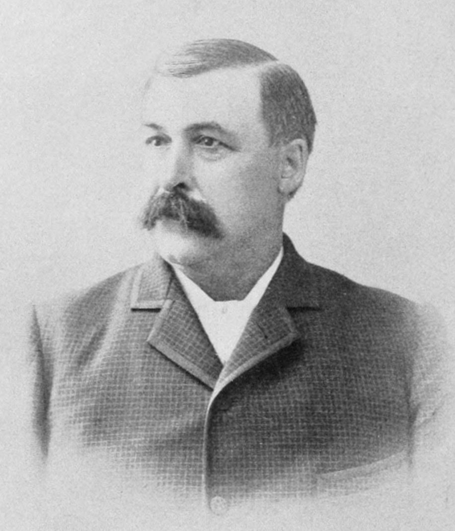 Charles A. Chickering, New York Congressman